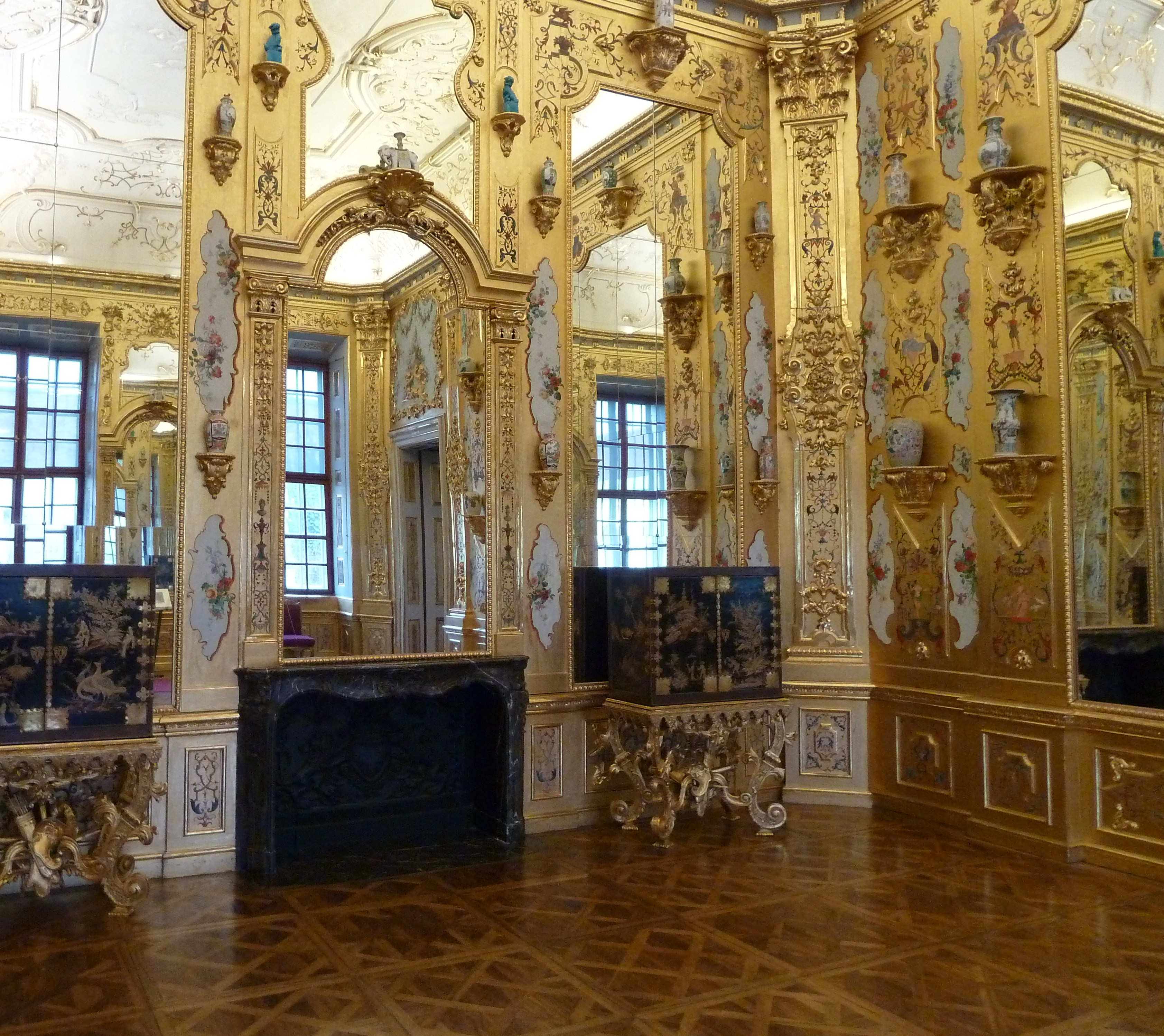 Lower Belvedere, Belvedere Palace and gardens at wintertime, Vienna, Austria